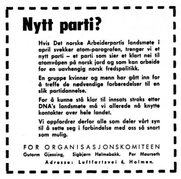 Newpaper advertisement seeking to form the Norwegian Socialist Left Party february 2nd 1961.